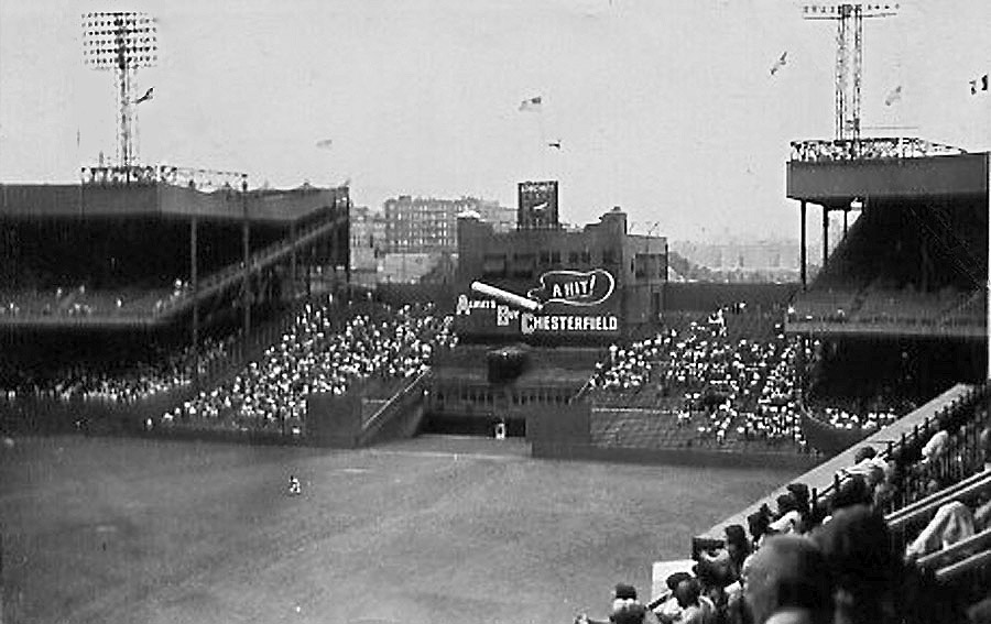 My father went to this game before his ship left for Sidi Slimane Air Base in Morocco. Before he died he told me this was Yankee Stadium, but he must have been confused. Knowing him, he probably went to games both places while he was in town.